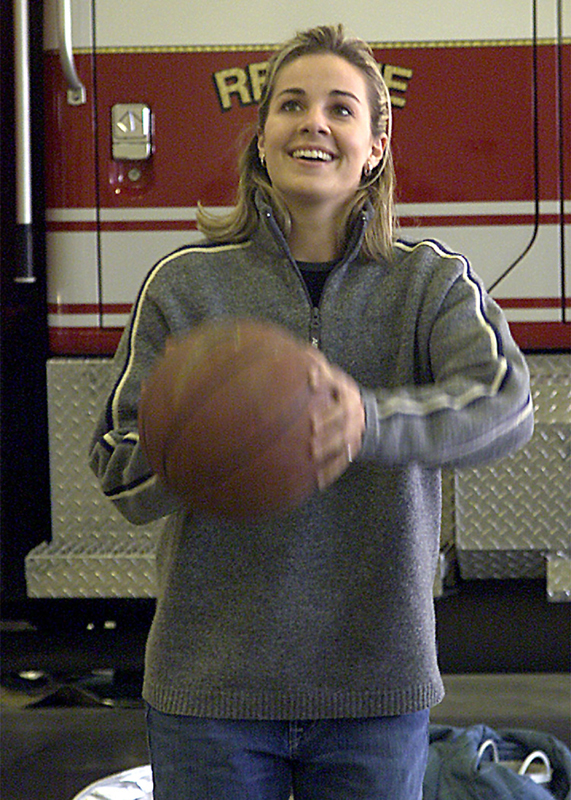 Original Caption: Women's National Basketball Association (WNBA) player, Becky Hammon of the New York Liberty, prepares to shoot the basketball during a visit at the fire station during a tour of Ellsworth Air Force Base, South Dakota. Information presented on the ACC Home Page is considered public information and may be distributed or copied. Use of appropriate byline/photo/image credits is requested. [1]